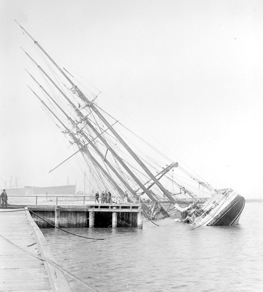 The 'Minnie A. Caine', an American sailing ship sunk to extinguish a fire settling in the water at Corporation wharf, Port Adelaide, South Australia; Part of Searcy Collection; State Library of South Australia PRG 280/1/17/512: "This image has no known copyright restrictions."